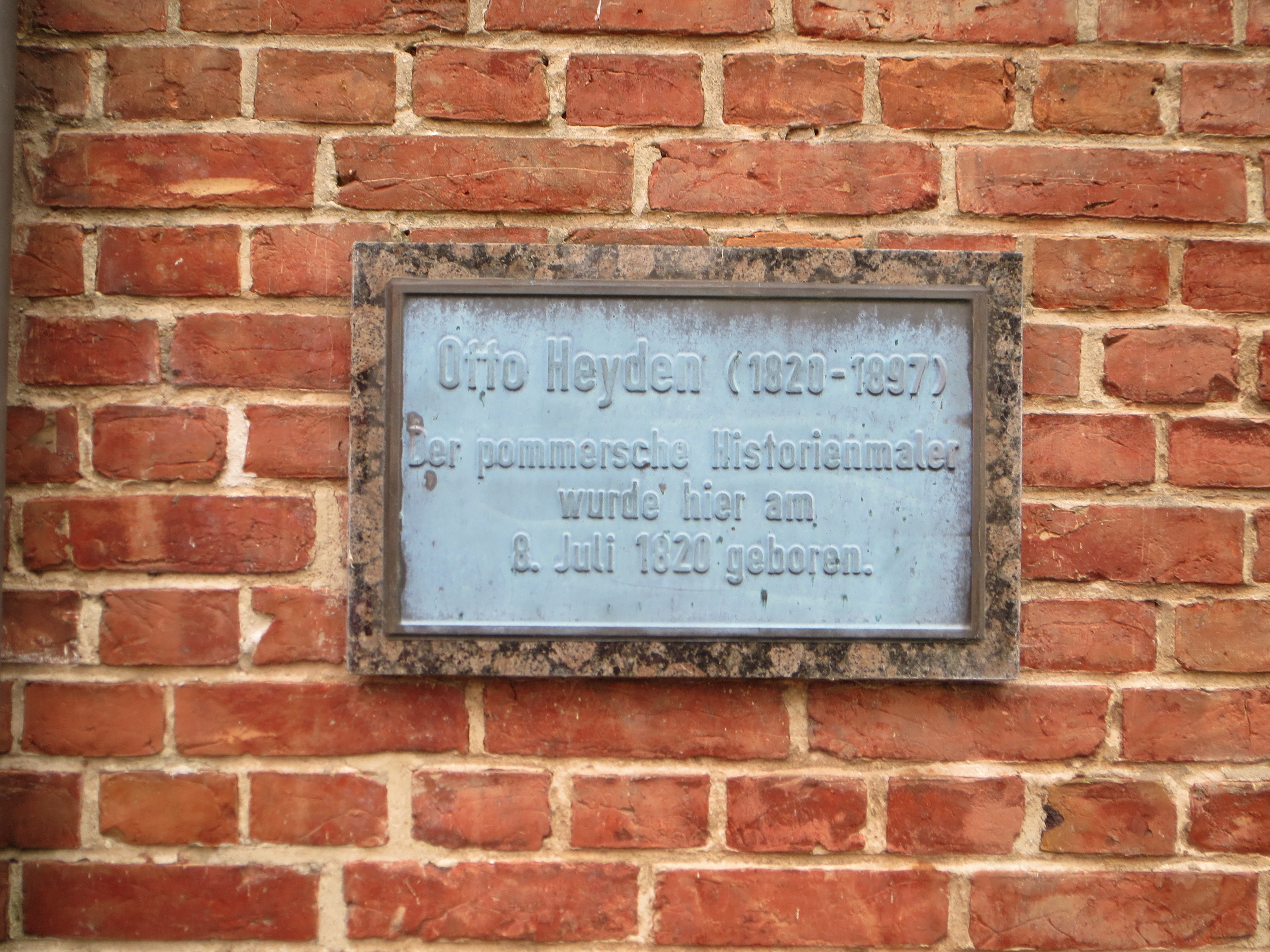 Ducherow Pfarrhof Plaque commemorating painter Otto Heyden